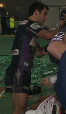 Cameron Smith after beating Canberra.